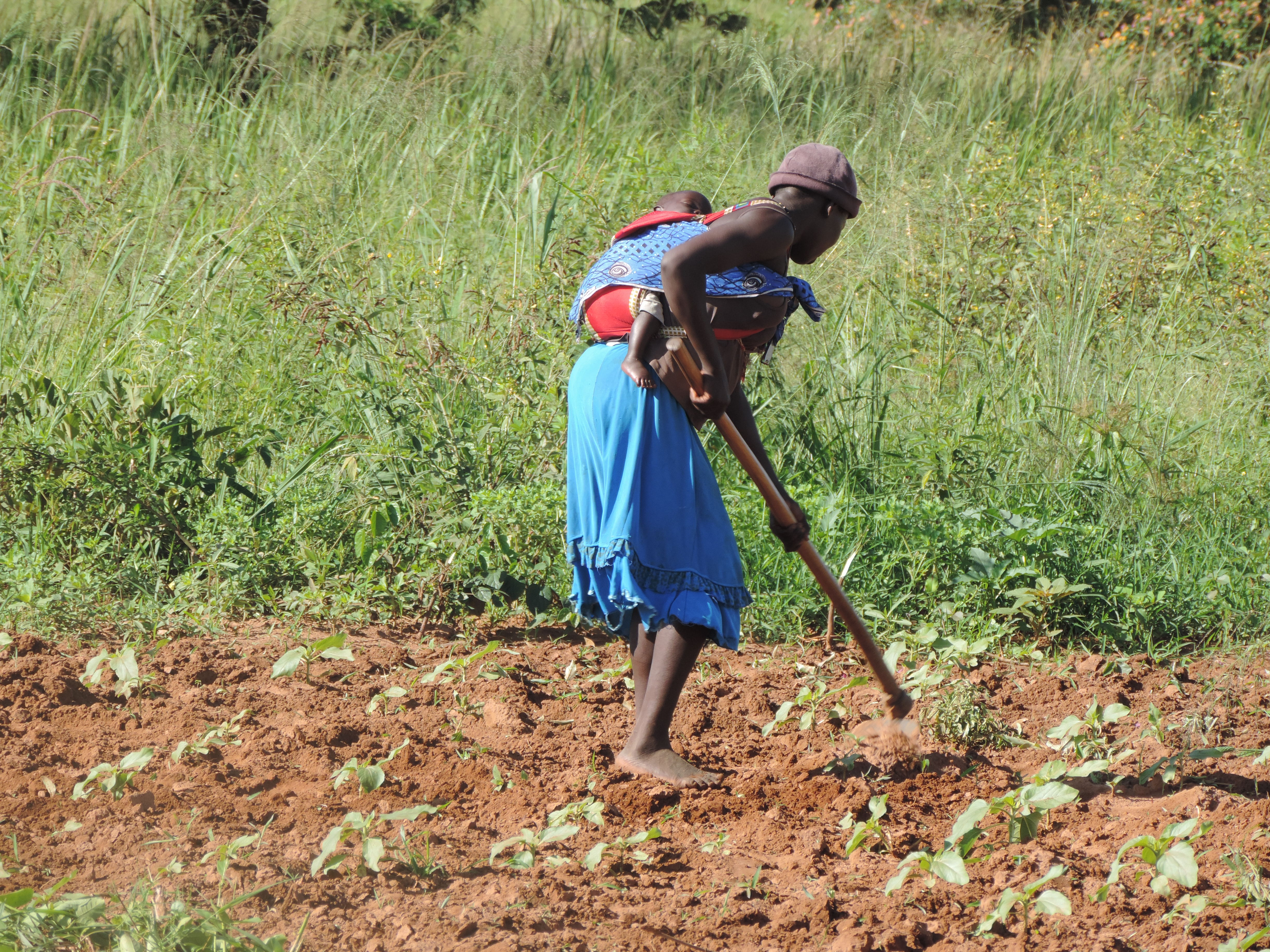 A woman working in the field in Northern Uganda. She is weeding sunflower plants with a baby on her back. This is an image of "African people at work" from Uganda